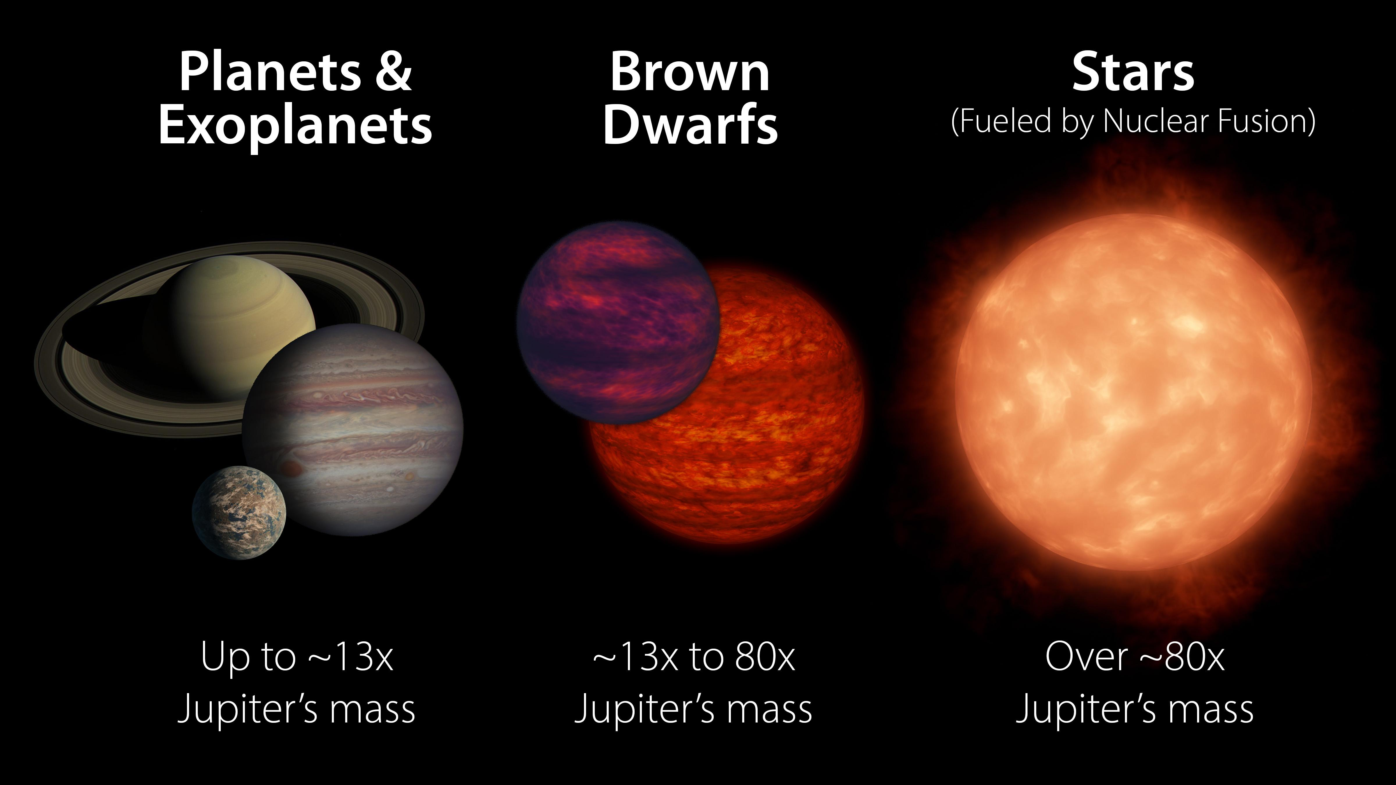 PIA23685: What is a Brown Dwarf? Brown dwarfs are more massive than planets but not quite as massive as stars. Generally speaking, they have between 13 and 80 times the mass of Jupiter. A brown dwarf becomes a star if its core pressure gets high enough to start nuclear fusion